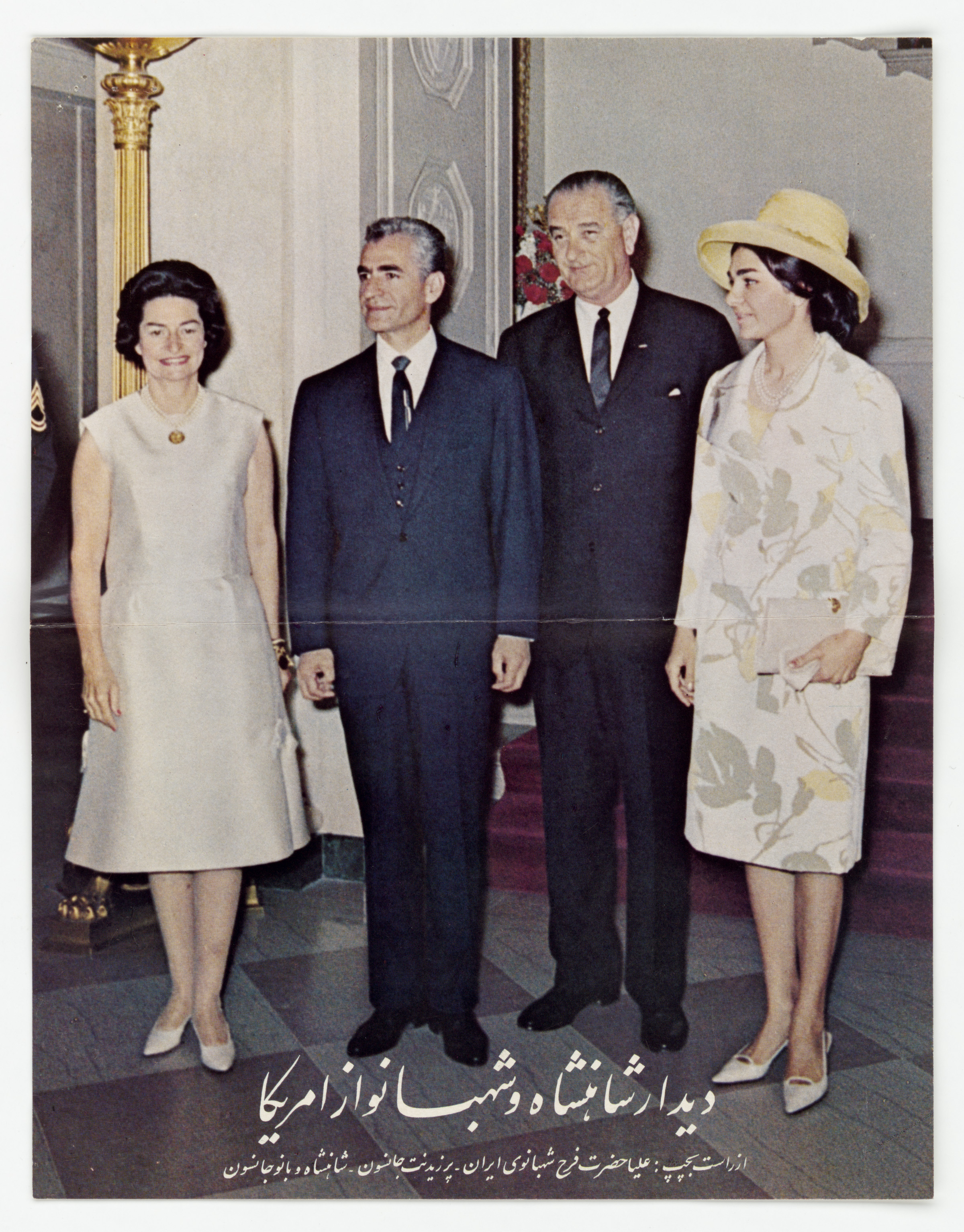 Mohammad Reza and Farah Pahlavi with the Johnsons on their visit to America. Record Group 306 Records of the U.S. Information Agency, 1900-2003 Still Pictures Identifier:306-PPB-302